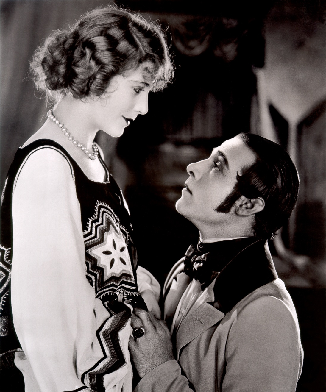 Vilma Bánky and Rudolph Valentino in The Eagle (1925) - cropped screenshot